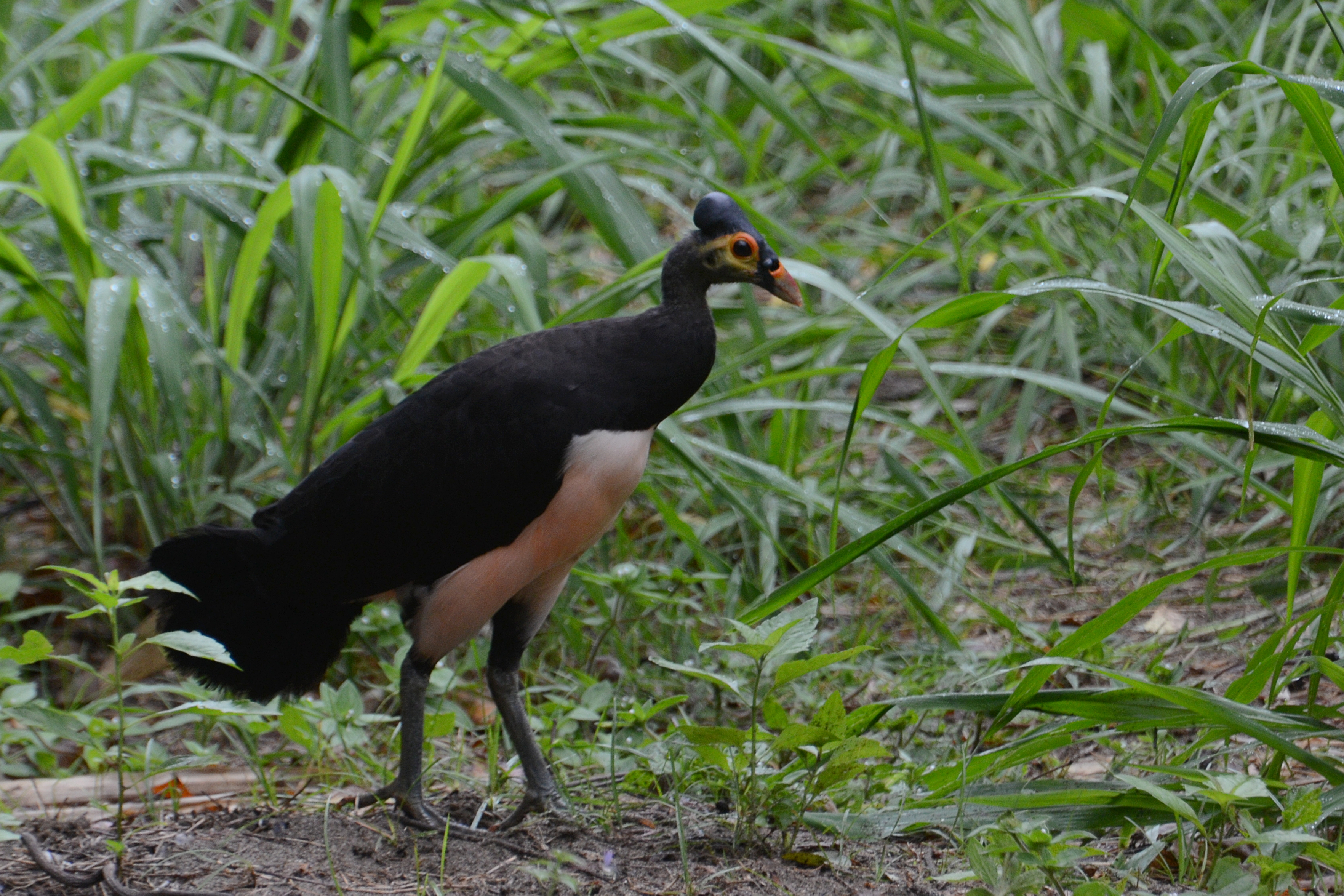 Maleo (Macrocephalon maleo) at Muara Pusian, North Sulawesi